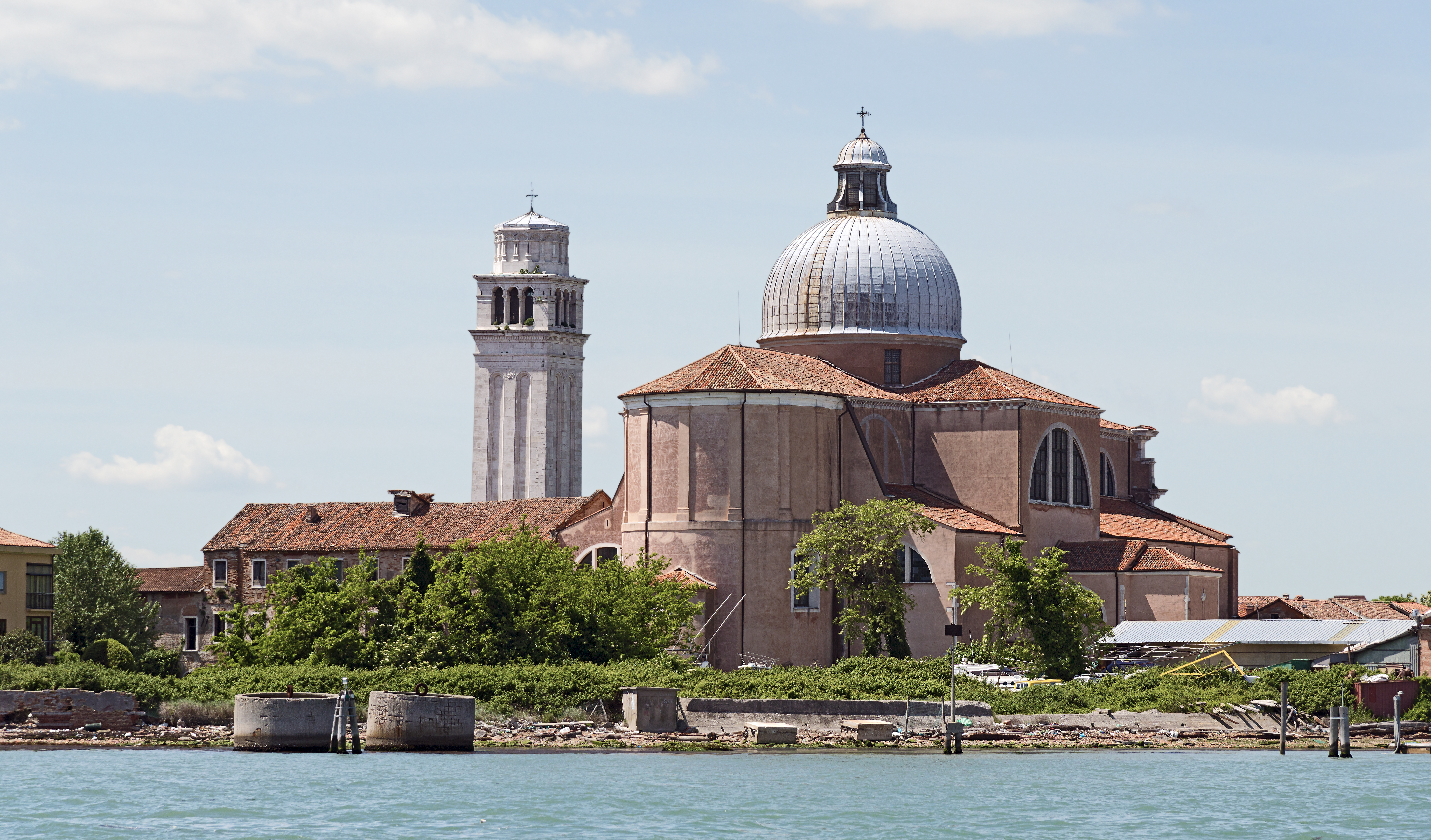 San Pietro di Castello in Venice. The apse view from the lagoon.